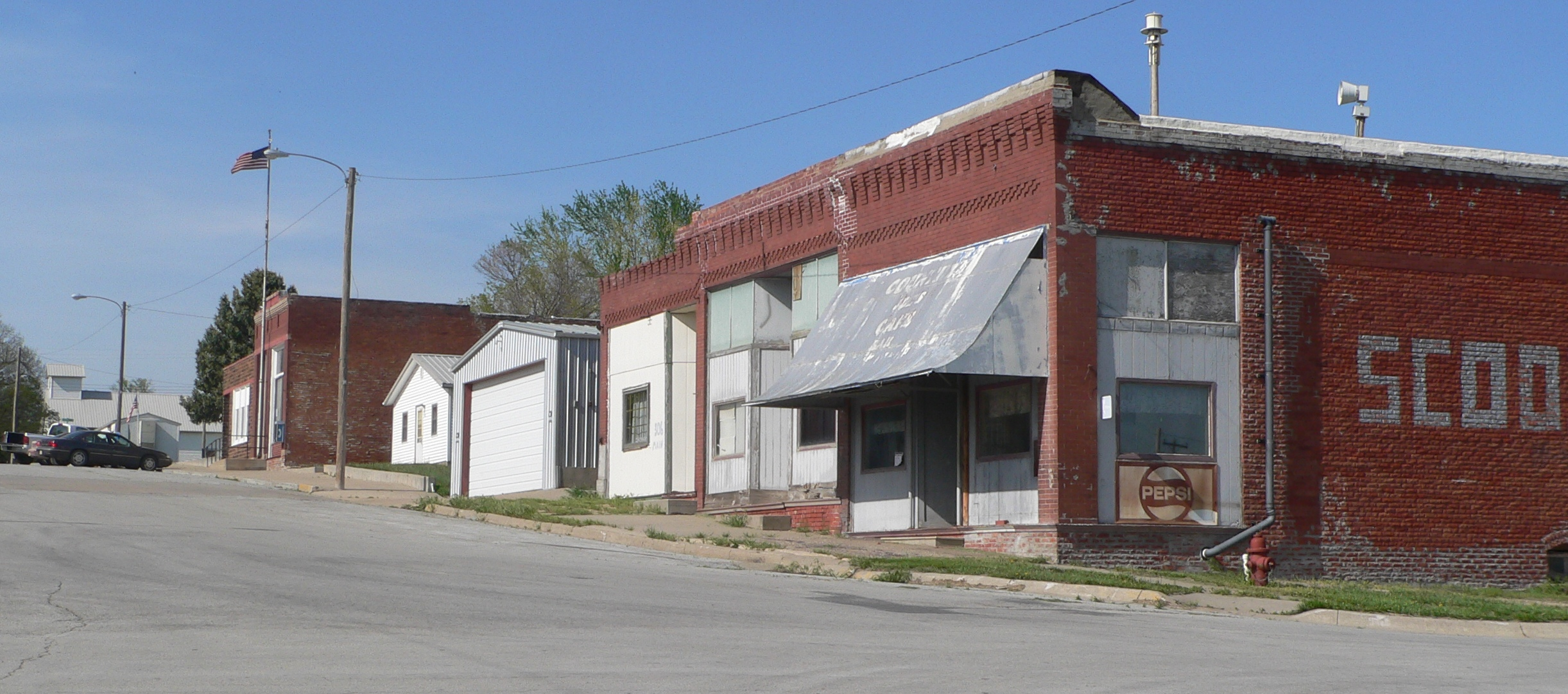 Downtown Verdon, Nebraska: east side of Main Street. Camera is facing northeast from about 3rd Street.